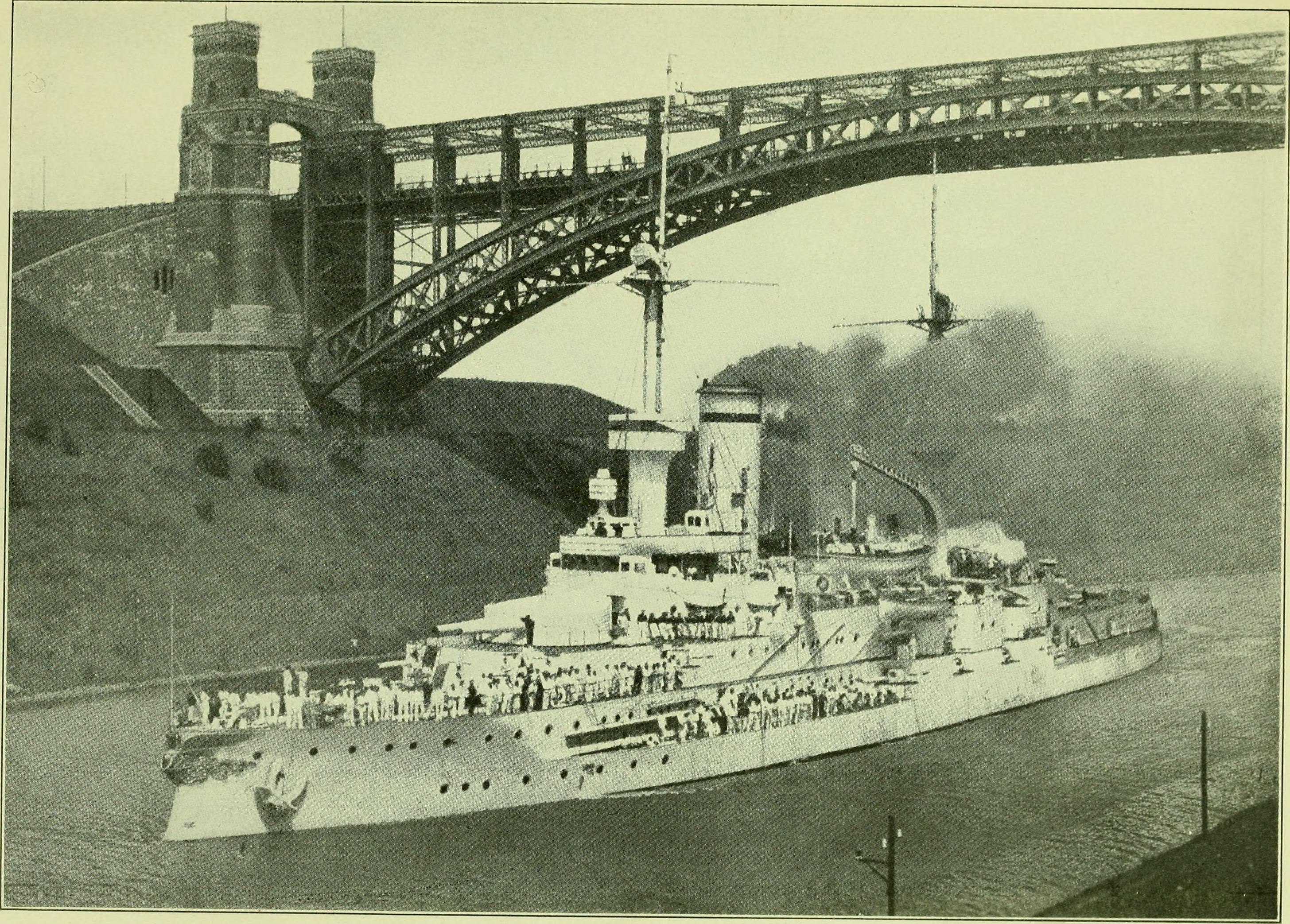 Title: Germany's fighting machine; her army, her navy, her air-ships, and why she arrayed them against the allied powers of Europe Year: 1914 (1910s) Authors: Henderson, Ernest F. (Ernest Flagg), 1861-1928 Subjects: Germany. Heer Germany. Kriegsmarine World War, 1914-1918 Publisher: Indianapolis, The Bobbs-Merrill company Text Appearing Before Image: umbers thirty-eight ships of the line,fourteen armored cruisers, thirty-eight protected cruis-ers, two hundred twenty-four tor))edo-boats and thirtysubmarines. There are no torpedo-boat-destroyers asin other navies, the small cruisers being supposed totake their place. The battle-ships are ranged in classes.There are three of the King class (the Konig, theGrosser KurfUrst and the Marhgraf), which have adisplacement of nearly 26,000 tons and are equippedwith every possible modern improvement, such as netprotection against torpedoes, turbine engines, provisionfor oil-fuel, torpedo tubes, etc. It is from these mon-sters, of which each carries ten of the largest guns, notto speak of the smaller ones, that we shall probably hearmost in the course of the war, though not perhaps in thebeginning, as they are not fully completed. They areto be joined in 1915 by a sister-ship, the Kronpriiiz. The Konig class is to be larger in dimension, inhorse-power and in displacement, though not in speed or Text Appearing After Image: '